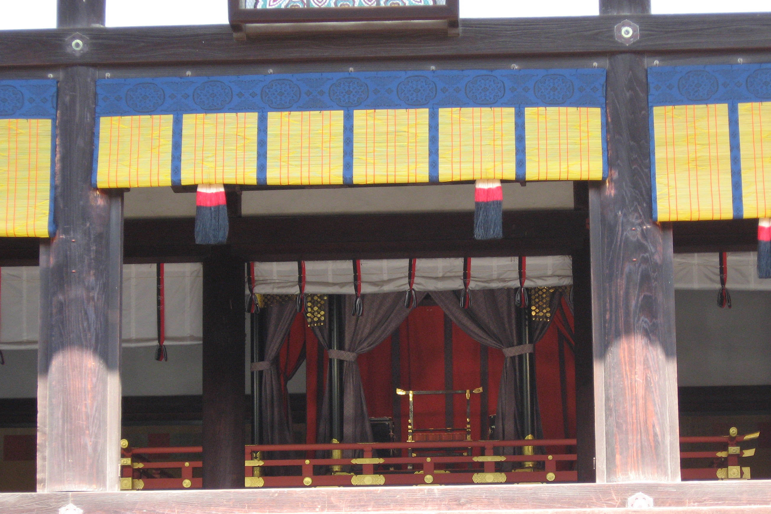 Imperial Throne of Shishinden in Kyoto Imperial Palace. 紫宸殿の高御座（京都御所）